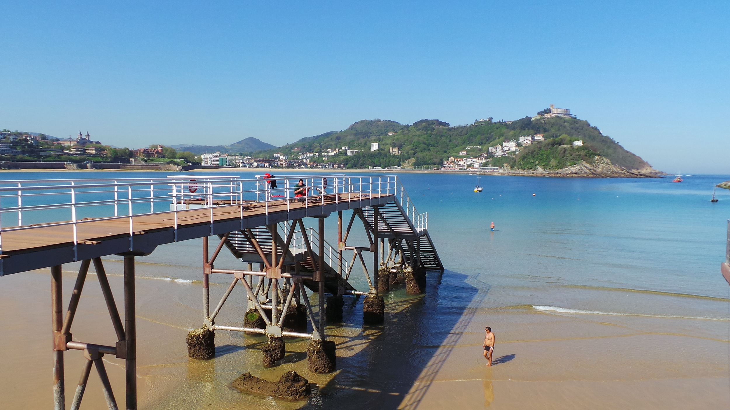 Kontxa bay from Nautiko club.